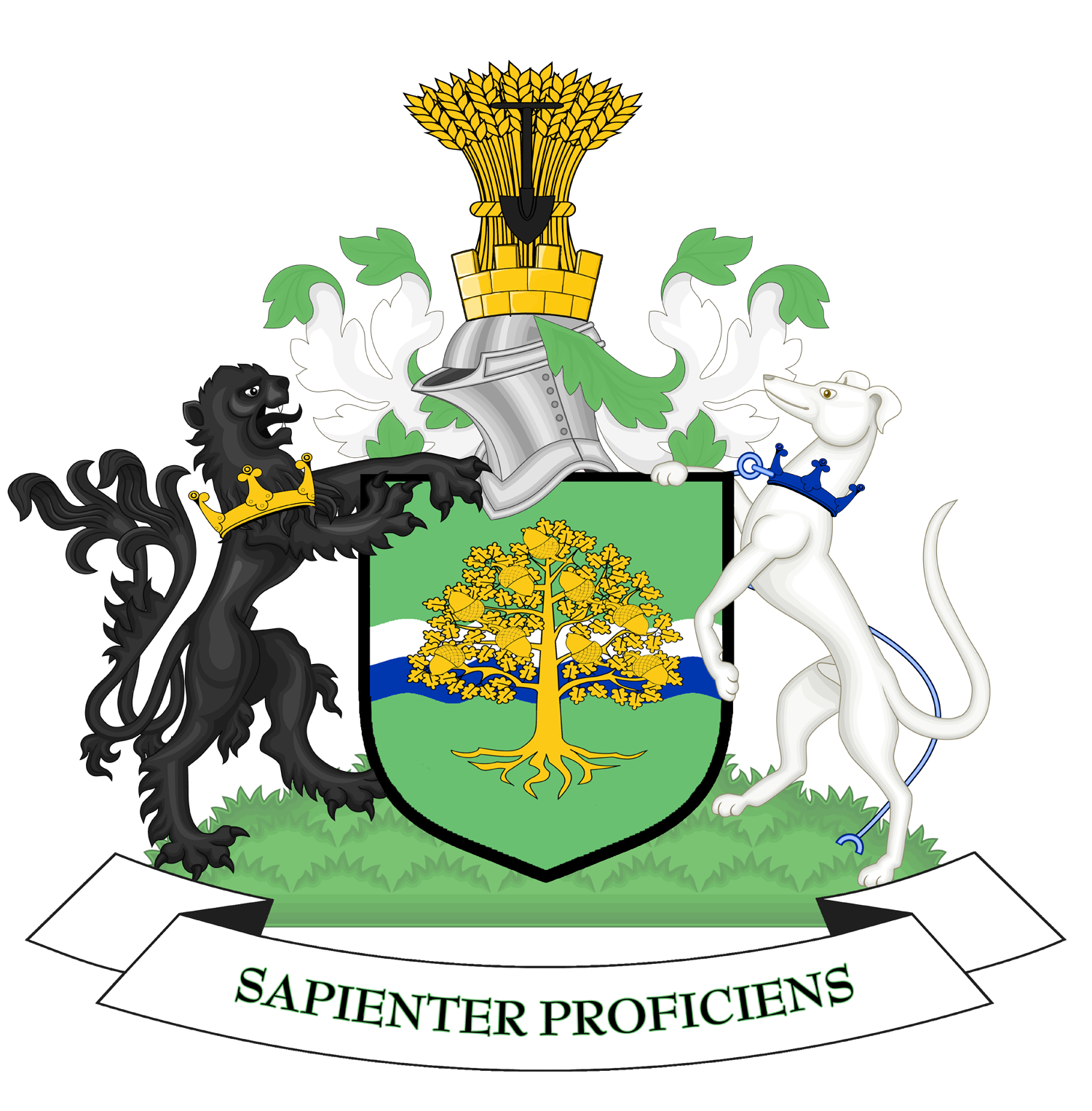 The Coat of arms of Nottinghamshire County Council.